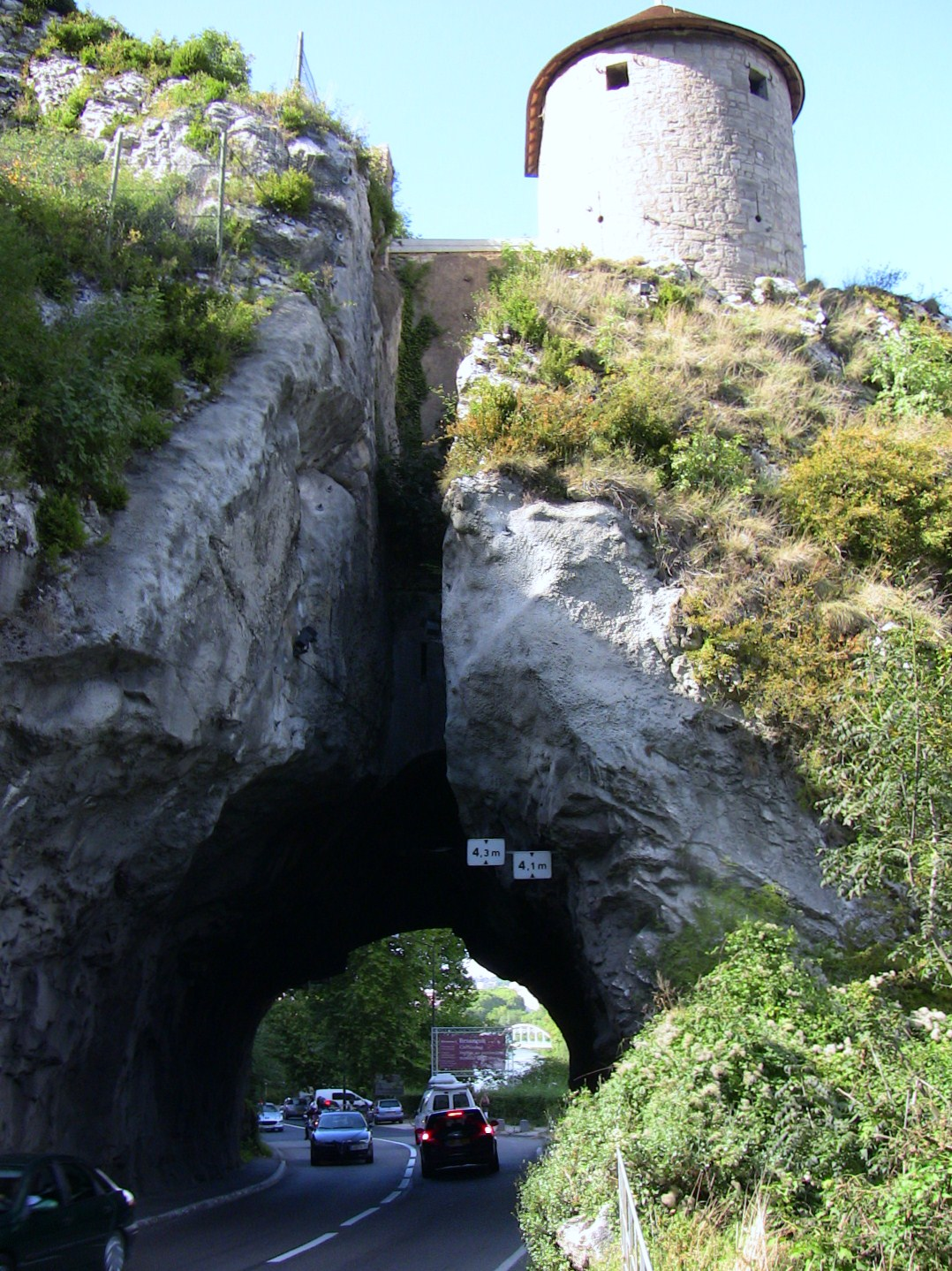 The Porte Taillée, located in Besançon (Doubs, France)